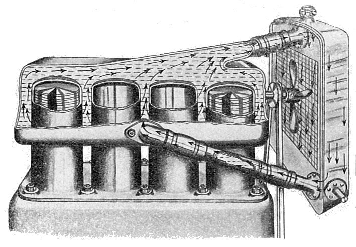 Thermo-syphon cooling circulation (Manual of Driving and Maintenance).jpg